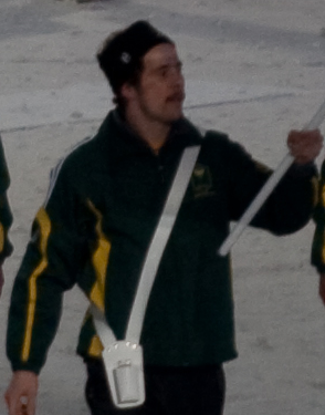 Oliver Kraas, skieur de fond représentant l'Afrique du Sud aux Jeux olympiques d'hiver de Vancouver en 2010.